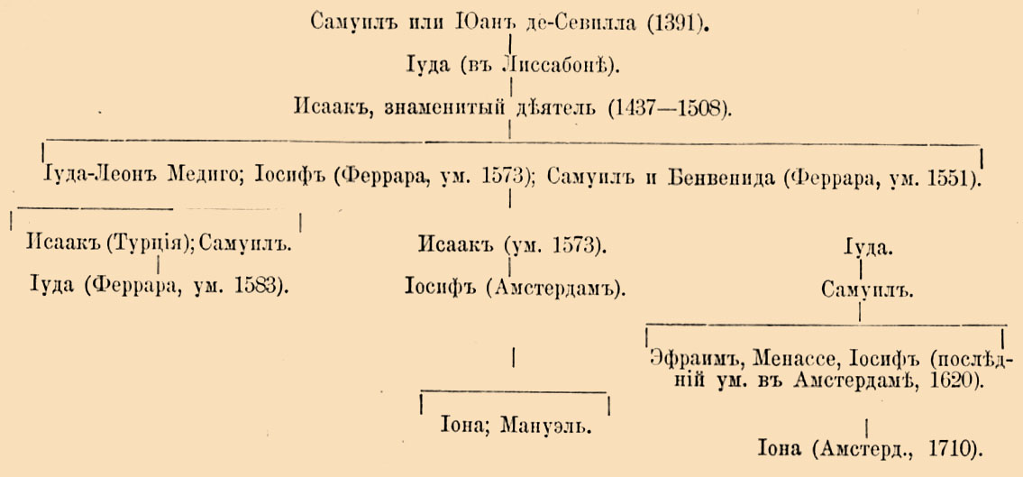 Abrabanel family tree, Illustration from Brockhaus and Efron Jewish Encyclopedia (1906—1913)